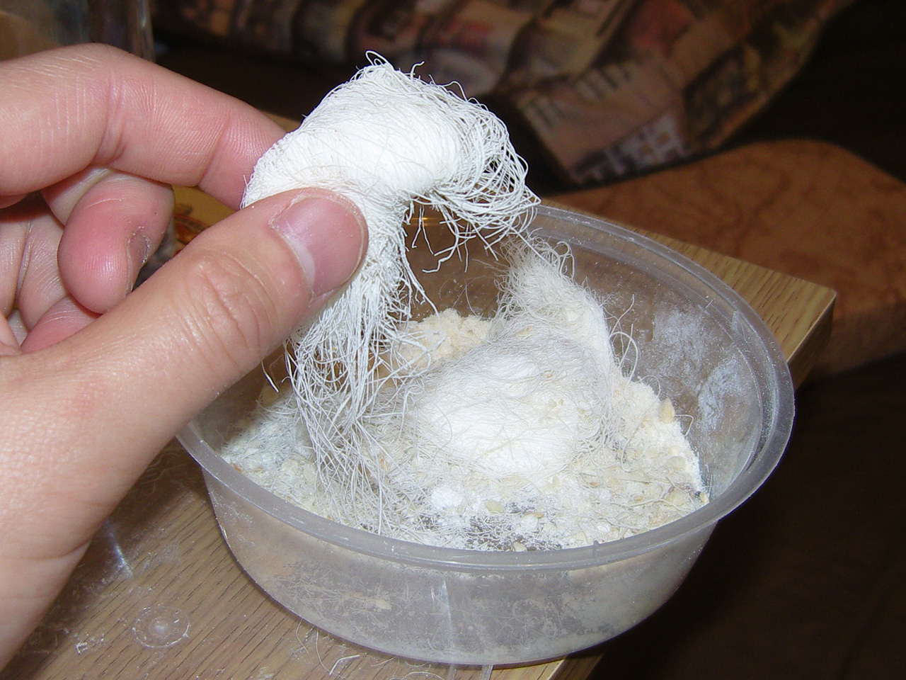 Dragon's beard candy bought from Chinatown, London.